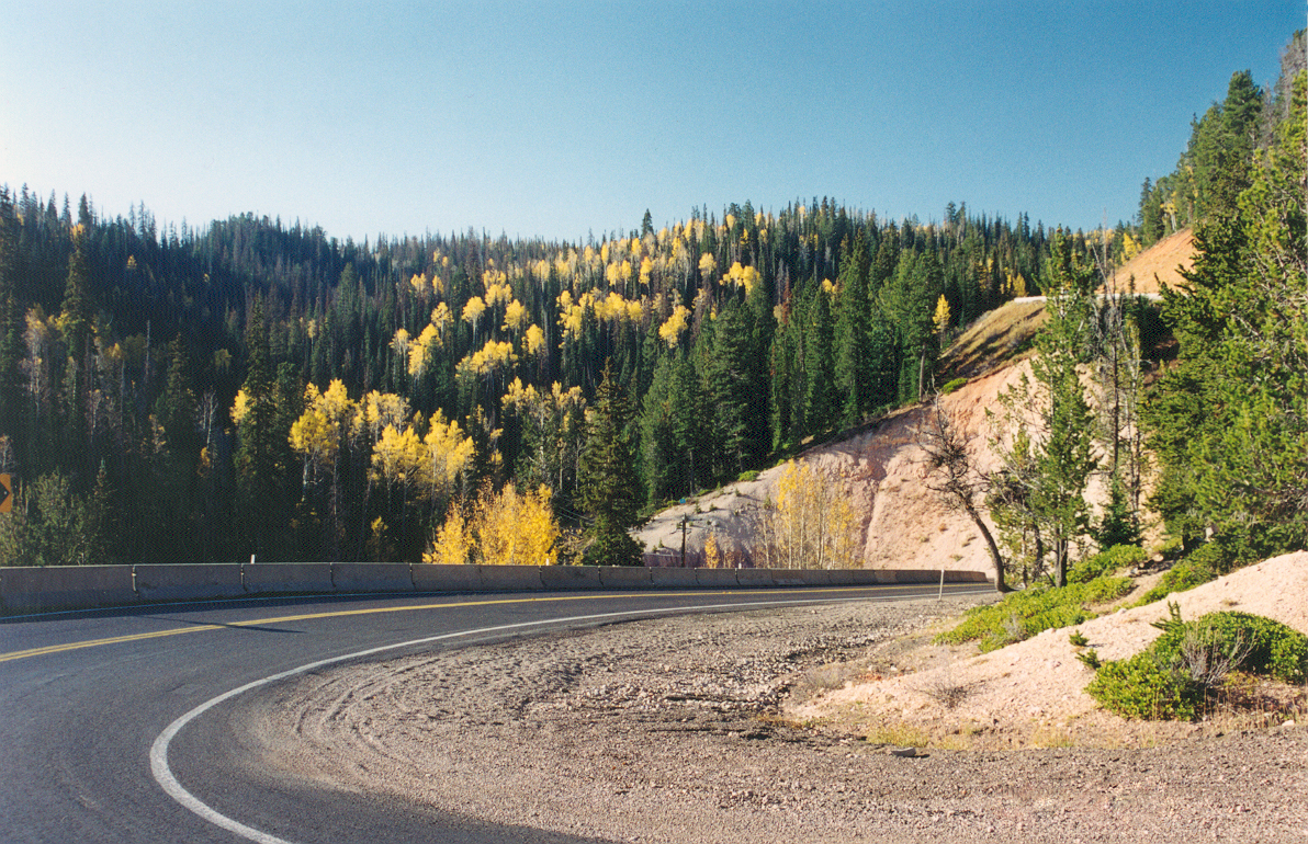 A dramatic switchback along Brian Head-Panguitch Lake Scenic Byway curves through thick forests.